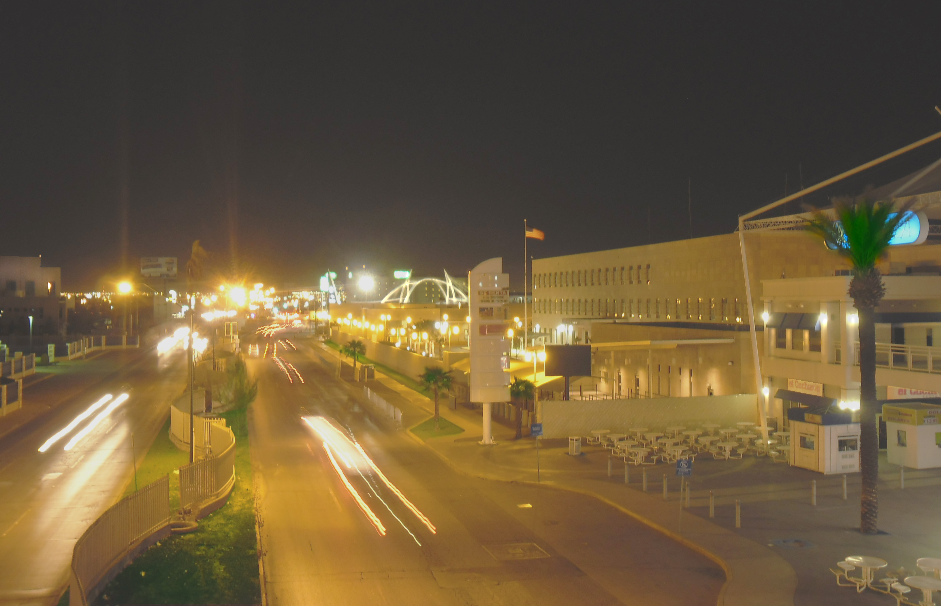 Consulate General of the United States Ciudad Juarez, Mexico